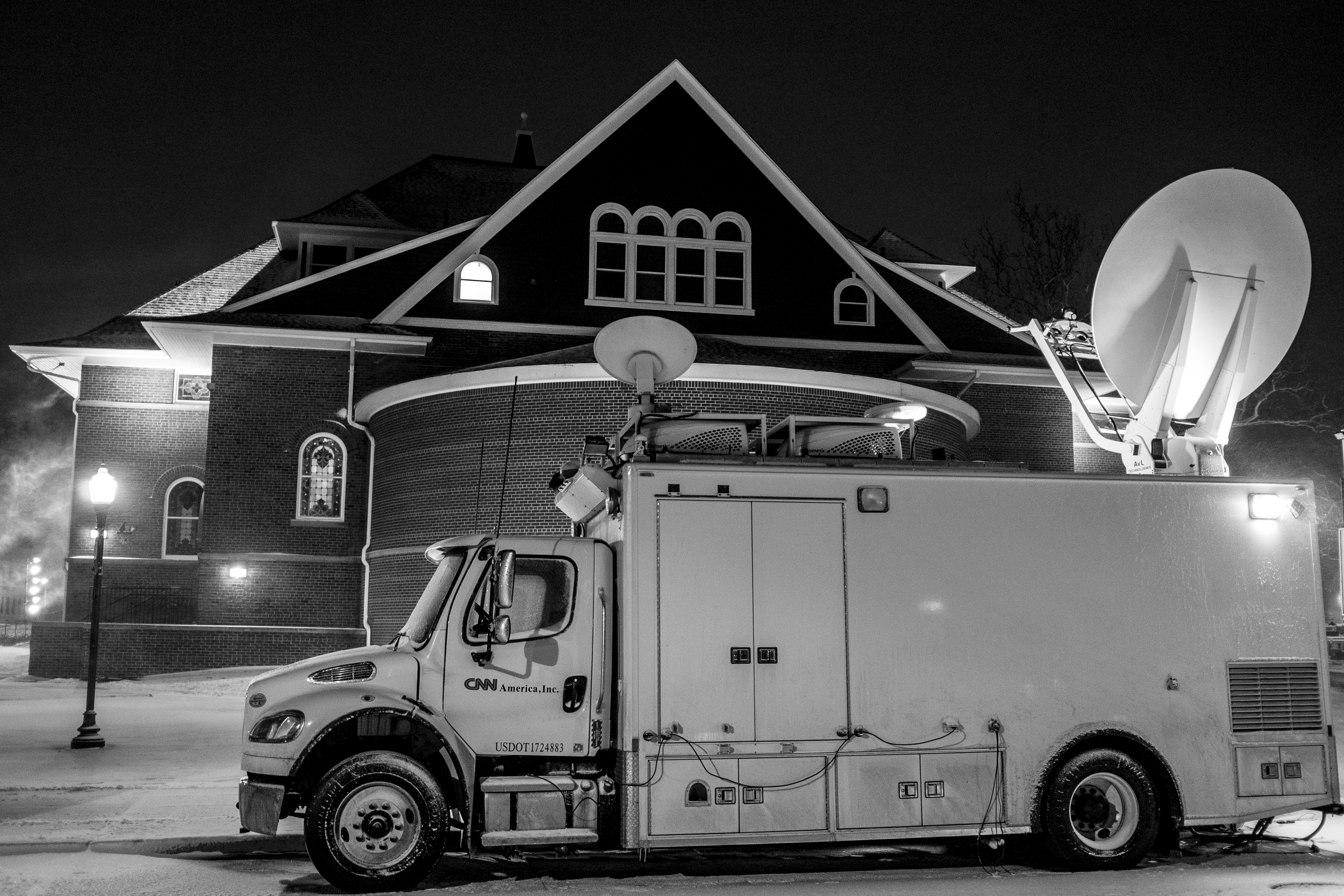 CNN's satellite truck parked behind Sheslow Auditorium, site of the final Democratic forum before the Iowa caucuses. Photos from the CNN Democratic Forum held at Drake University on January 25, 2016.